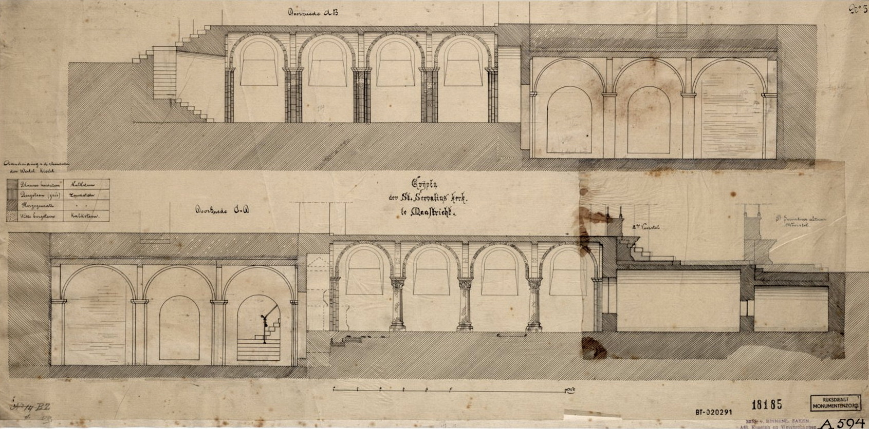 Proposal for the reconstruction and renovation of the crypts of the Basilica of Saint Servatius in Maastricht, the Netherlands. Architectural drawing, perhaps by Pierre Cuypers, 1881?